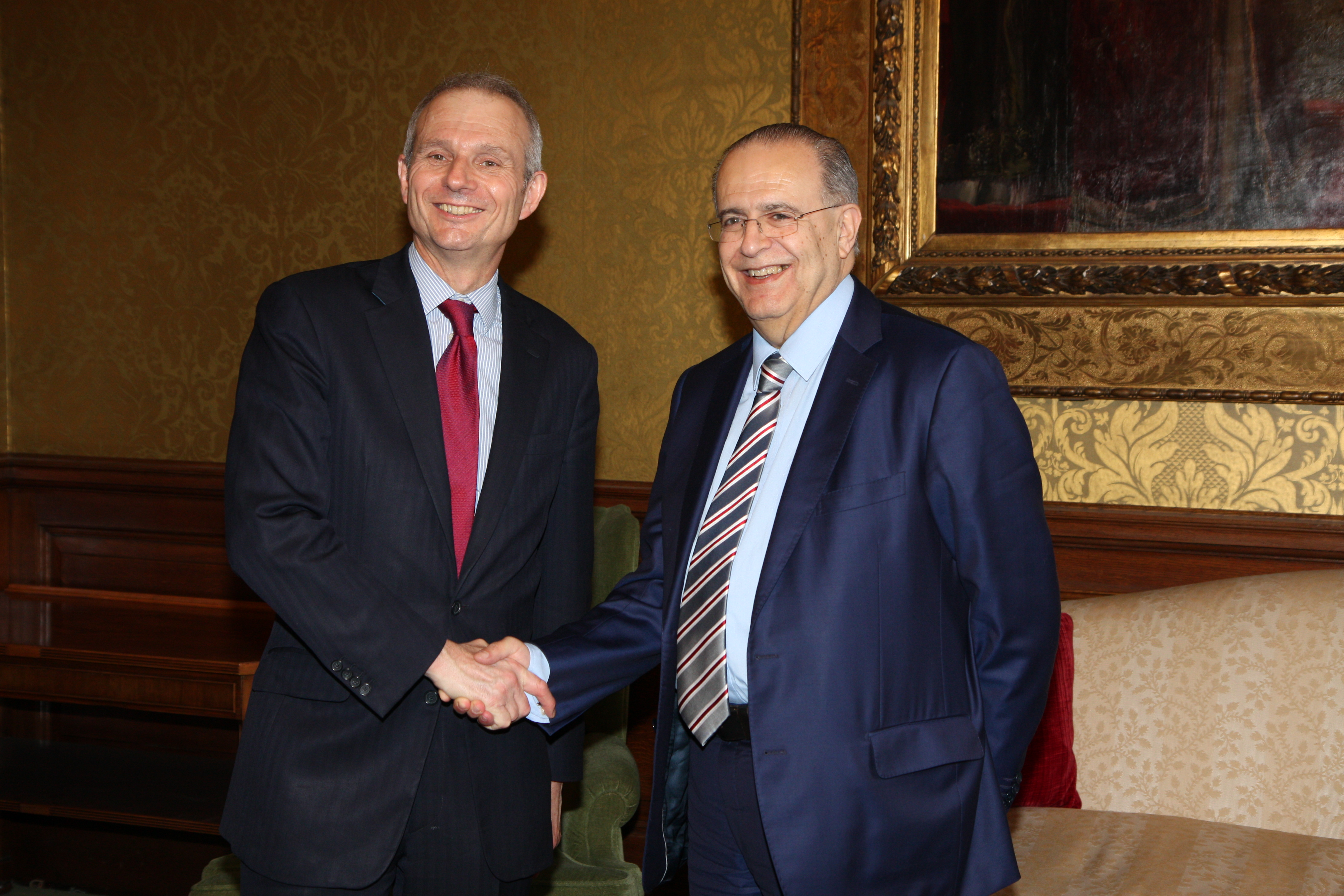 Minister for Europe David Lidington meeting Cypriot Foreign Minister Ioannis Kasoulides in London, 12 March 2015.